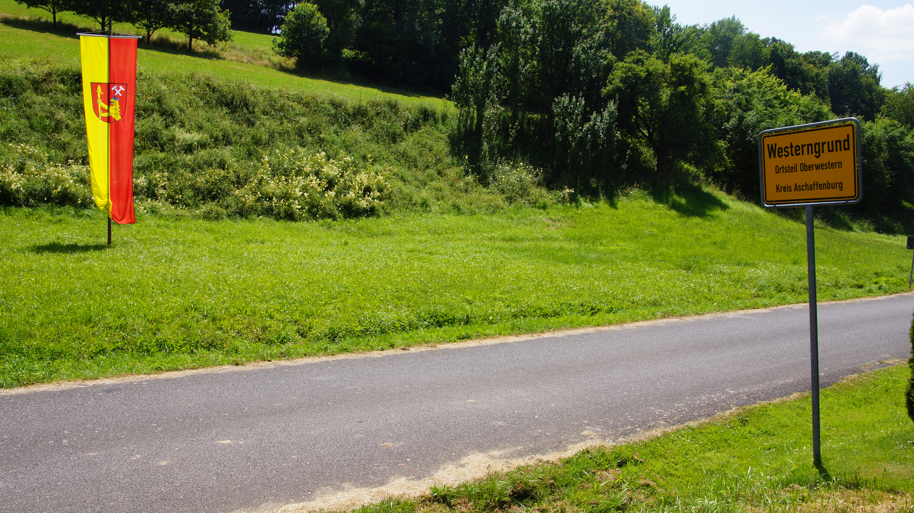 Geographical Centre of the European Union in Westerngrund.